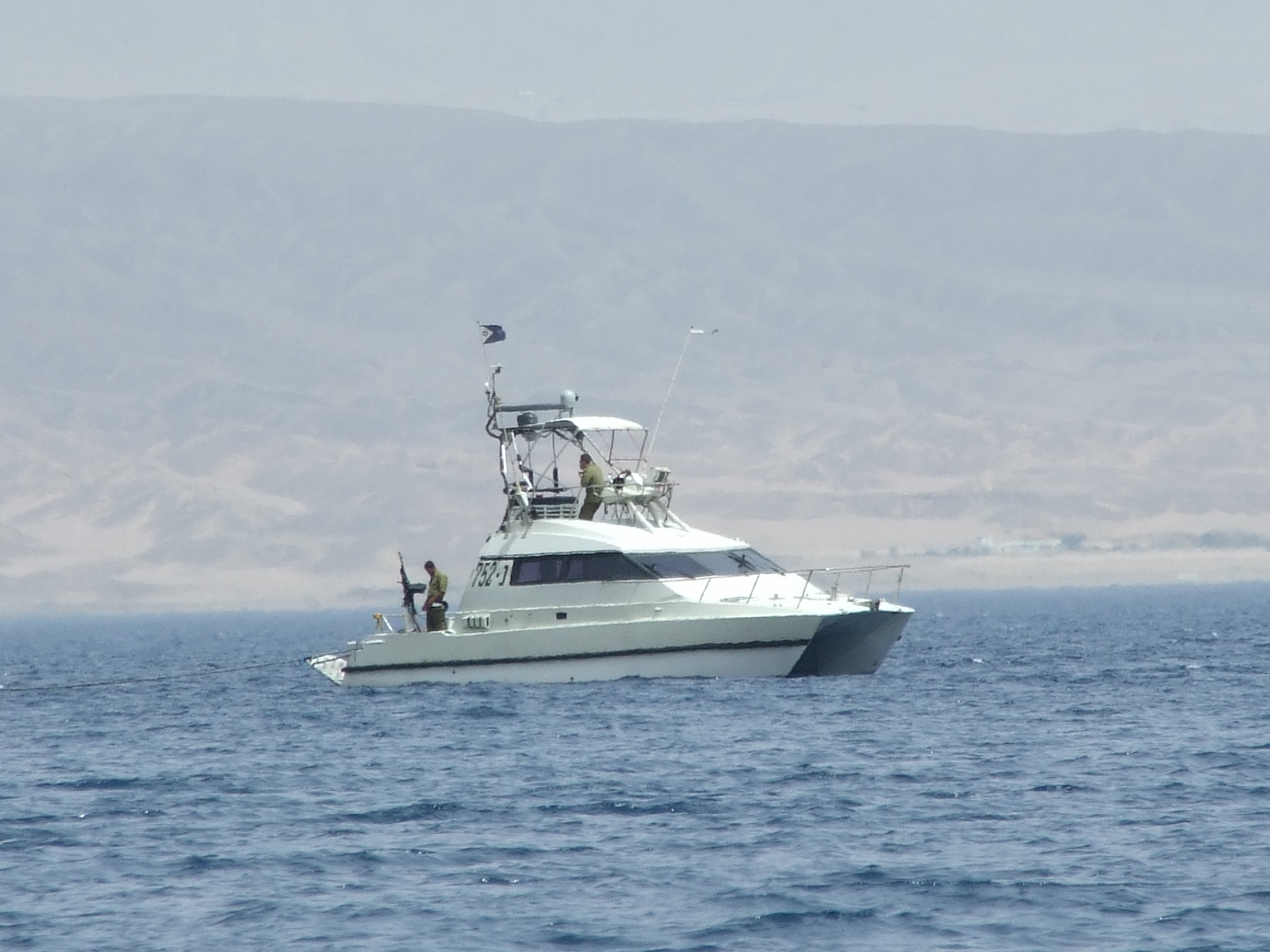 Israeli Nachshol class patrol boat (number 752) in bay of Eilat.